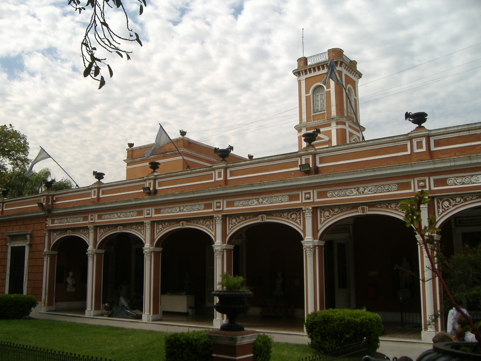 Nacional History Museum of Argentina